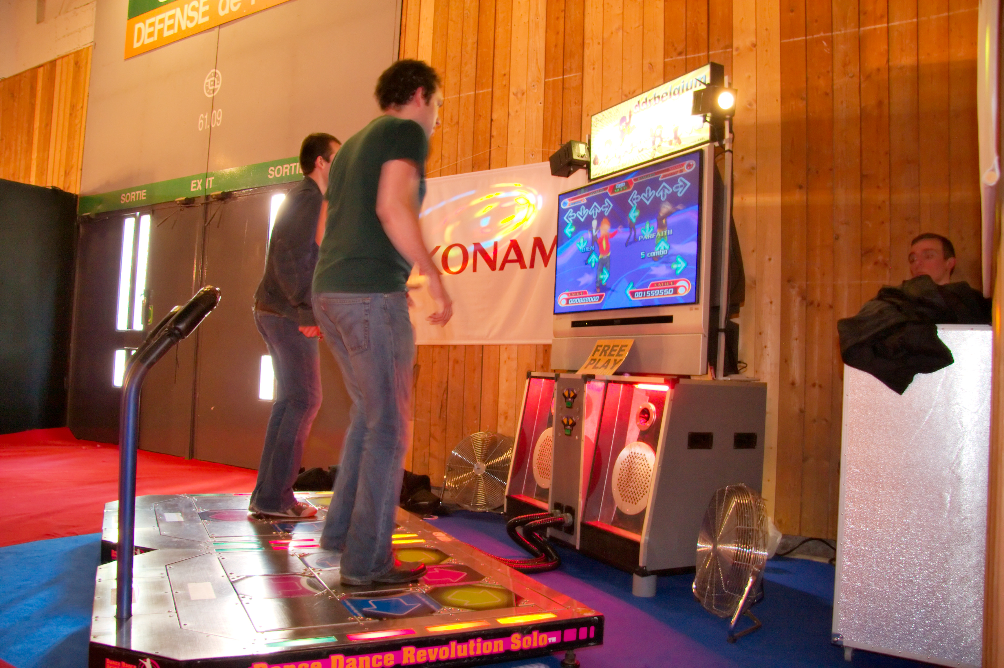 Festival du jeu vidéo 2008 (video game festival) (Paris, France).